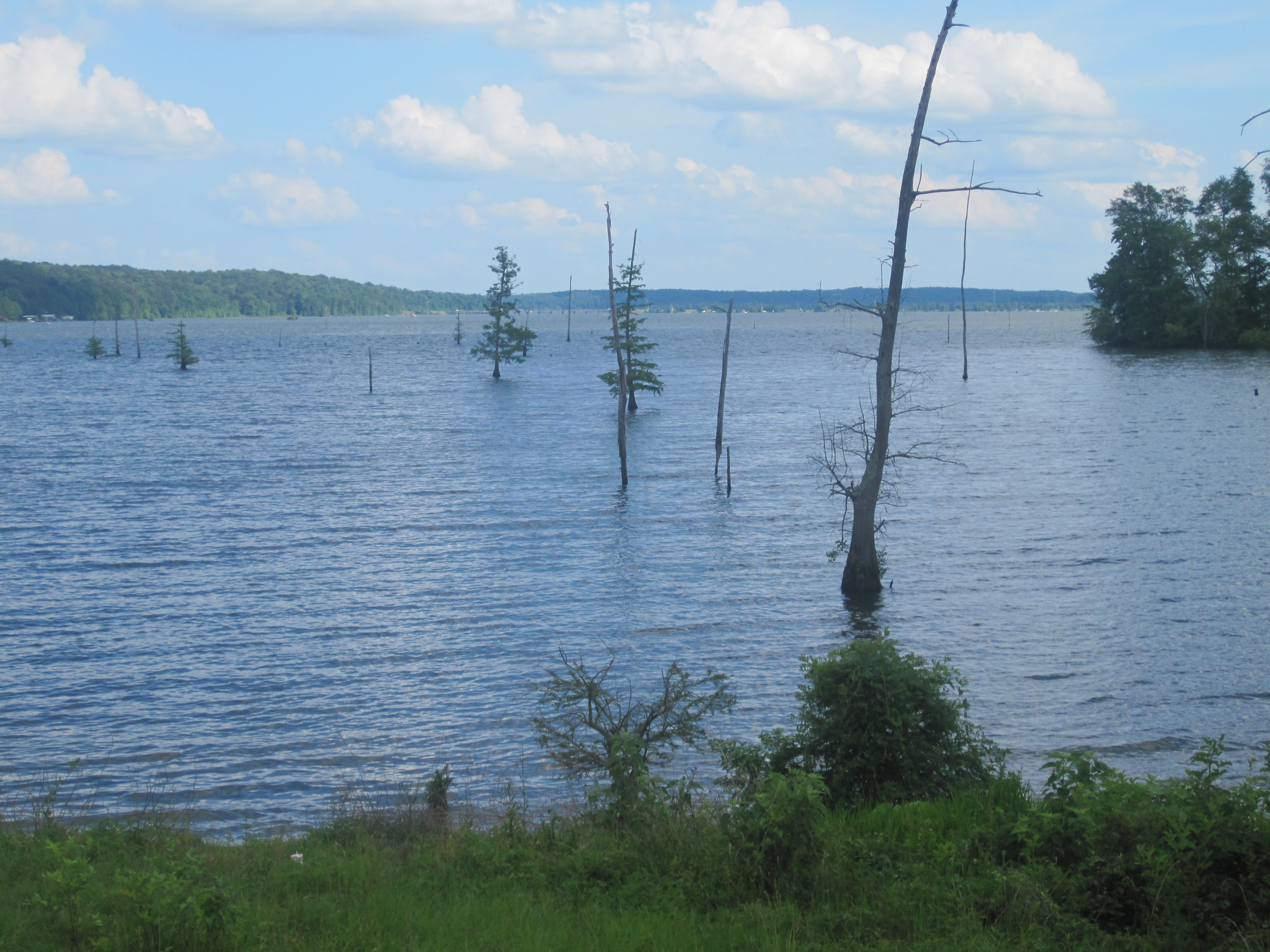 I took photo with Canon camera.